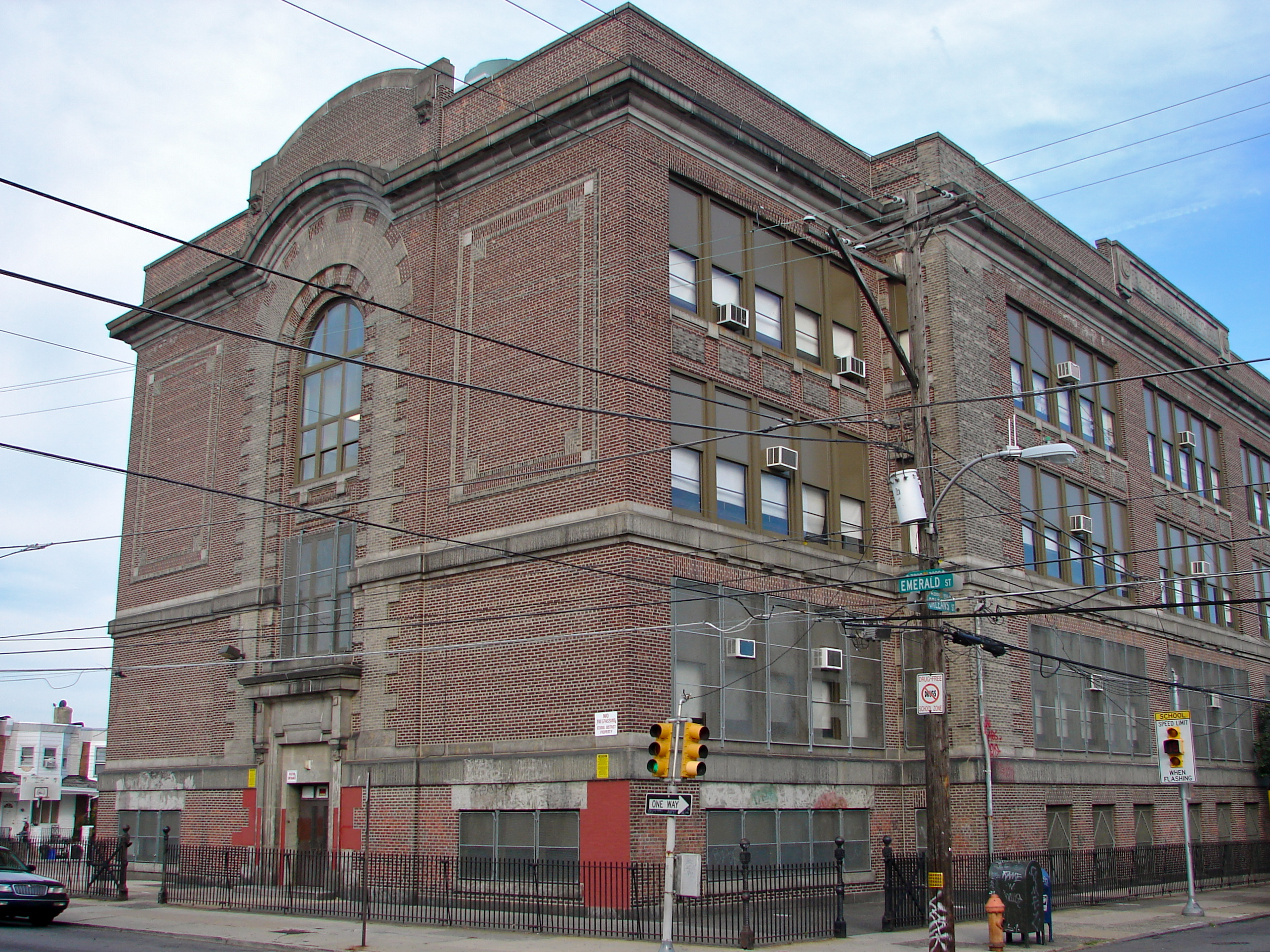 Former Frances E. Willard School in Philadelphia on the NRHP since December 4, 1986. At Emerald and Orleans Streets in the NE Philly neighborhood of Richmond